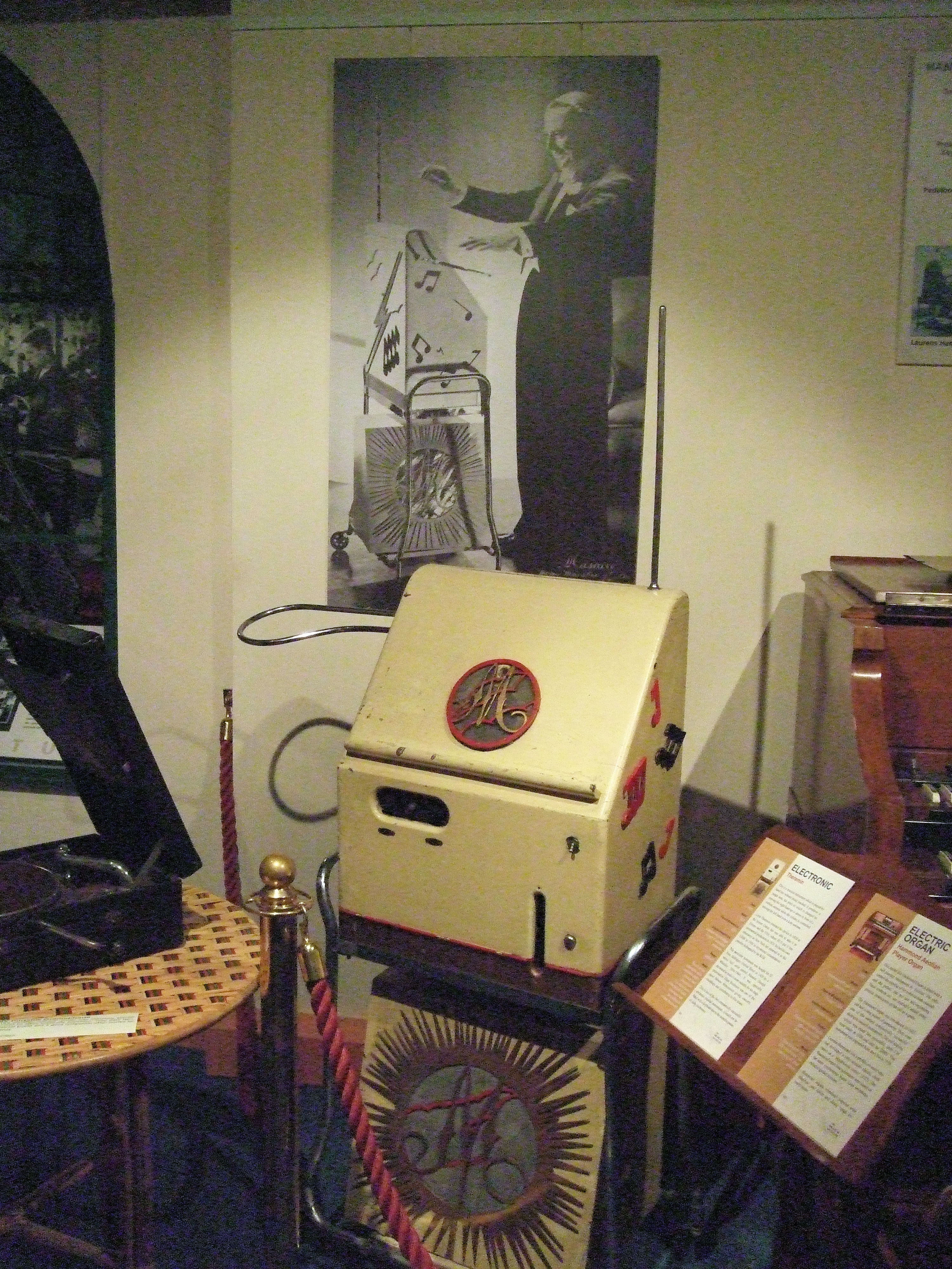 RCA Theremin and Aeolian/Hammond player organ displayed at the Musical Museum, Brentford. RCA theremin AR-1264 (1930, once owned by Musaire (Joseph Whitely 1894 - 1984)) Aeolian/Hammond player organ Model BA (1938) The theremin is one of the earliest electronic musical instruments, and the first musical instrument played without being touched. It was invented by Russian inventor Léon Theremin in 1919. The controlling section usually consists of two metal antennae which sense the position of the player's hands and control radio frequency oscillator(s) for frequency with one hand, and volume with the other. The electric signals from the theremin are amplified and sent to a loudspeaker. To play, the player moves his or her hands around the antennas, controlling frequency (pitch) and amplitude (volume). The theremin is associated with an eerie sound, which has led to its use in movie soundtracks such as those in Spellbound, The Lost Weekend, and The Day the Earth Stood Still.